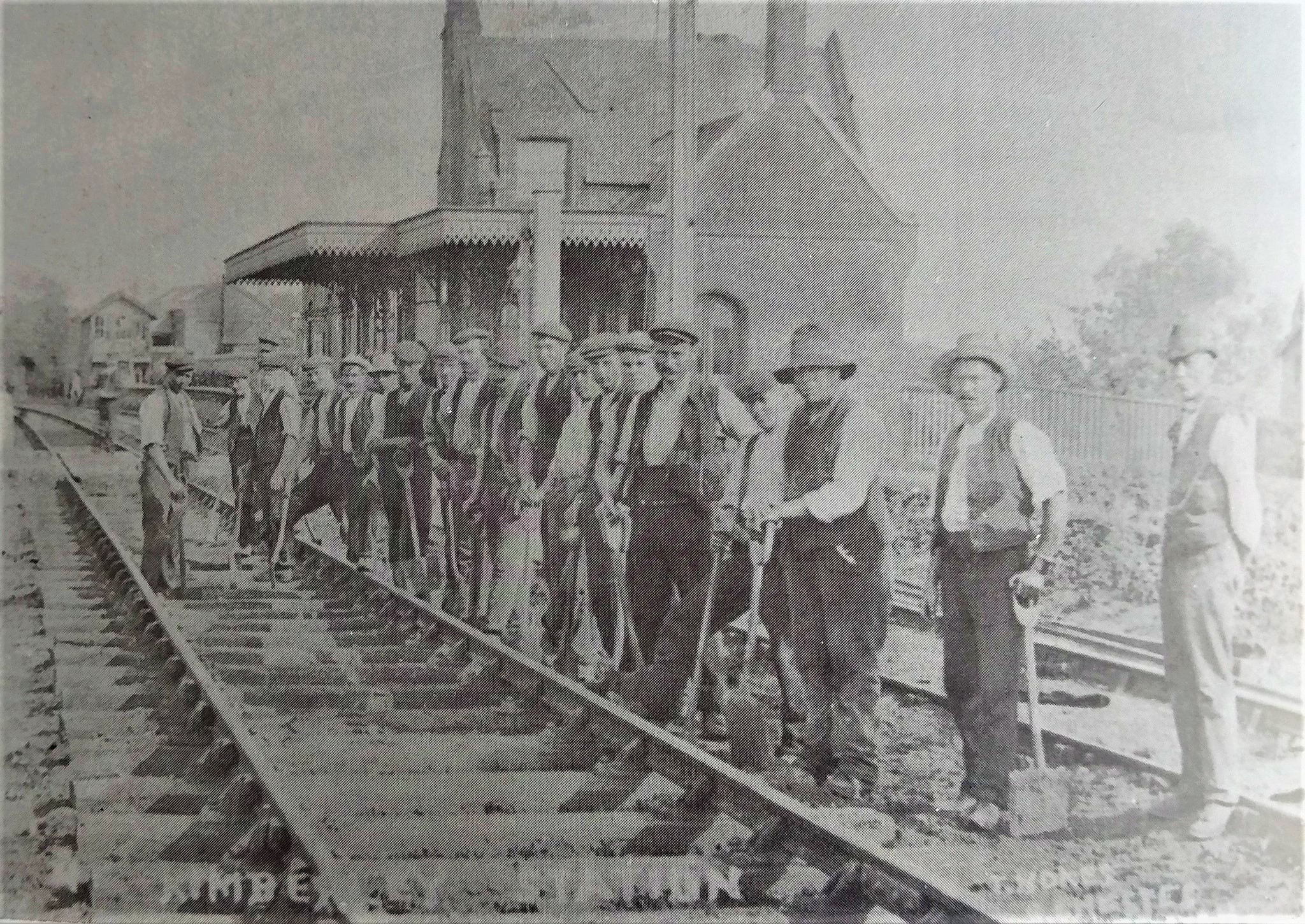 A Victorian image showing the doubling of the railway line through Kinberley station, Norfolk, around 1881.